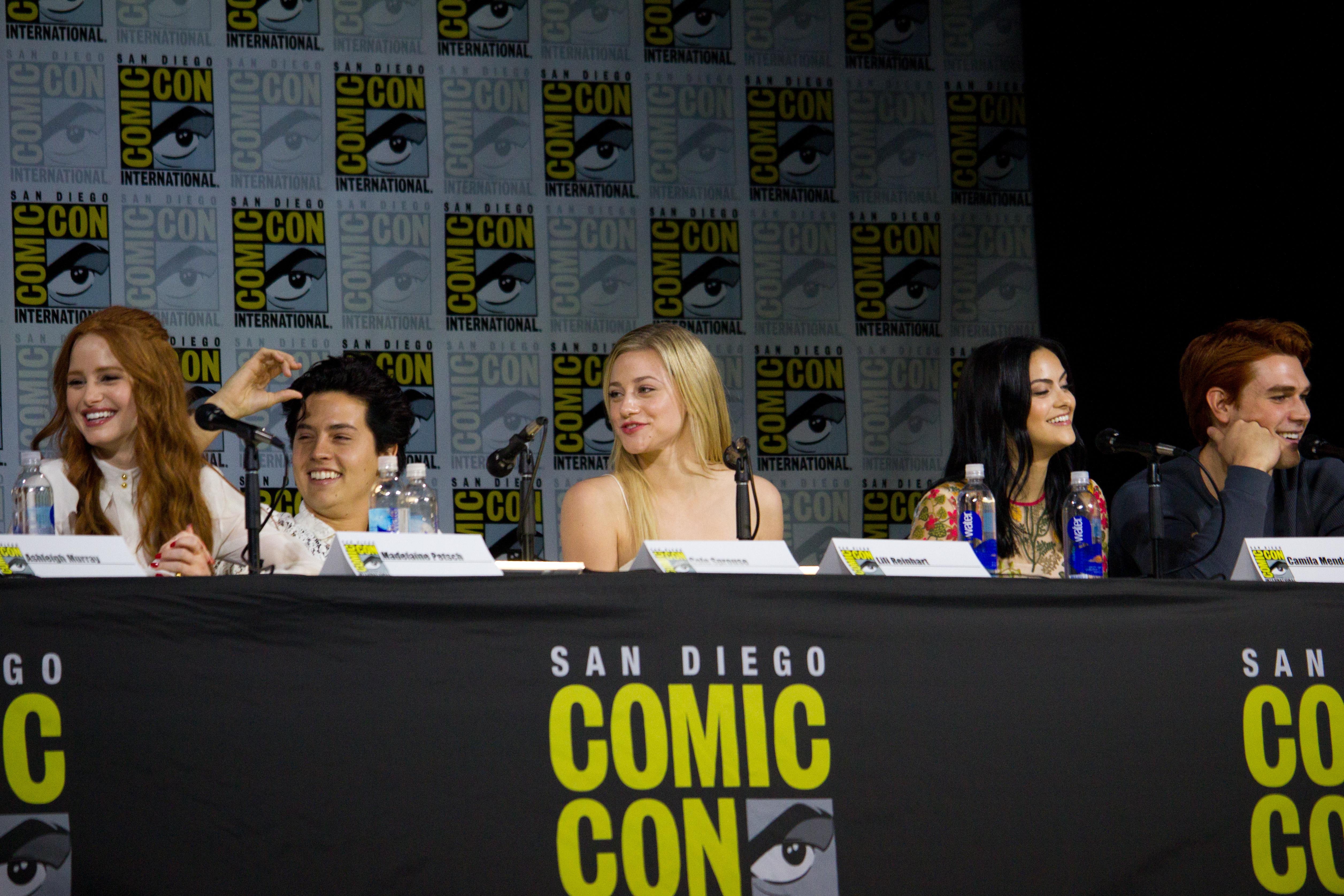 Riverdale Cast & creators panel at SDCC 2017